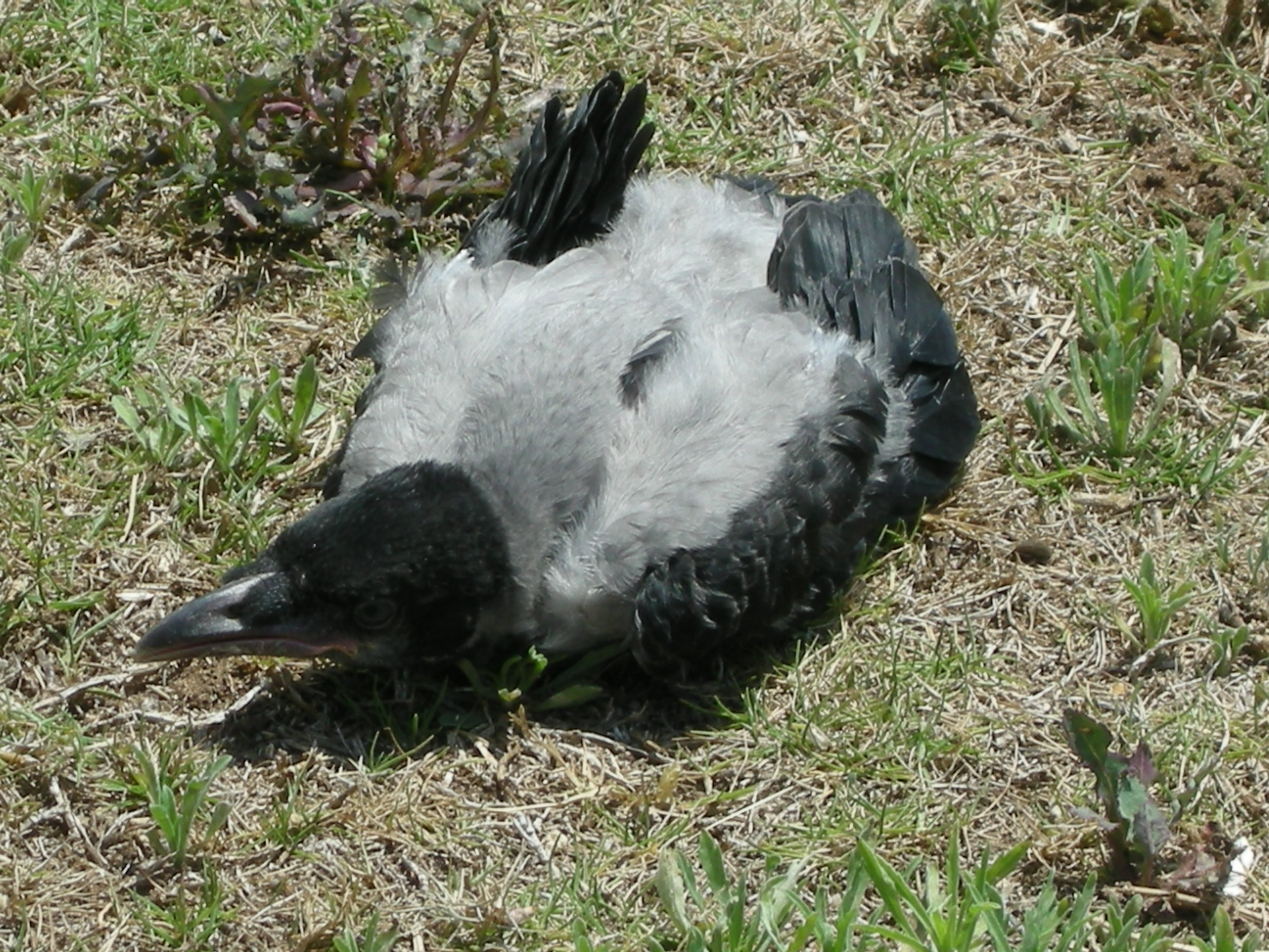 Israel National Trail